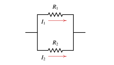 resistencias em paralelo